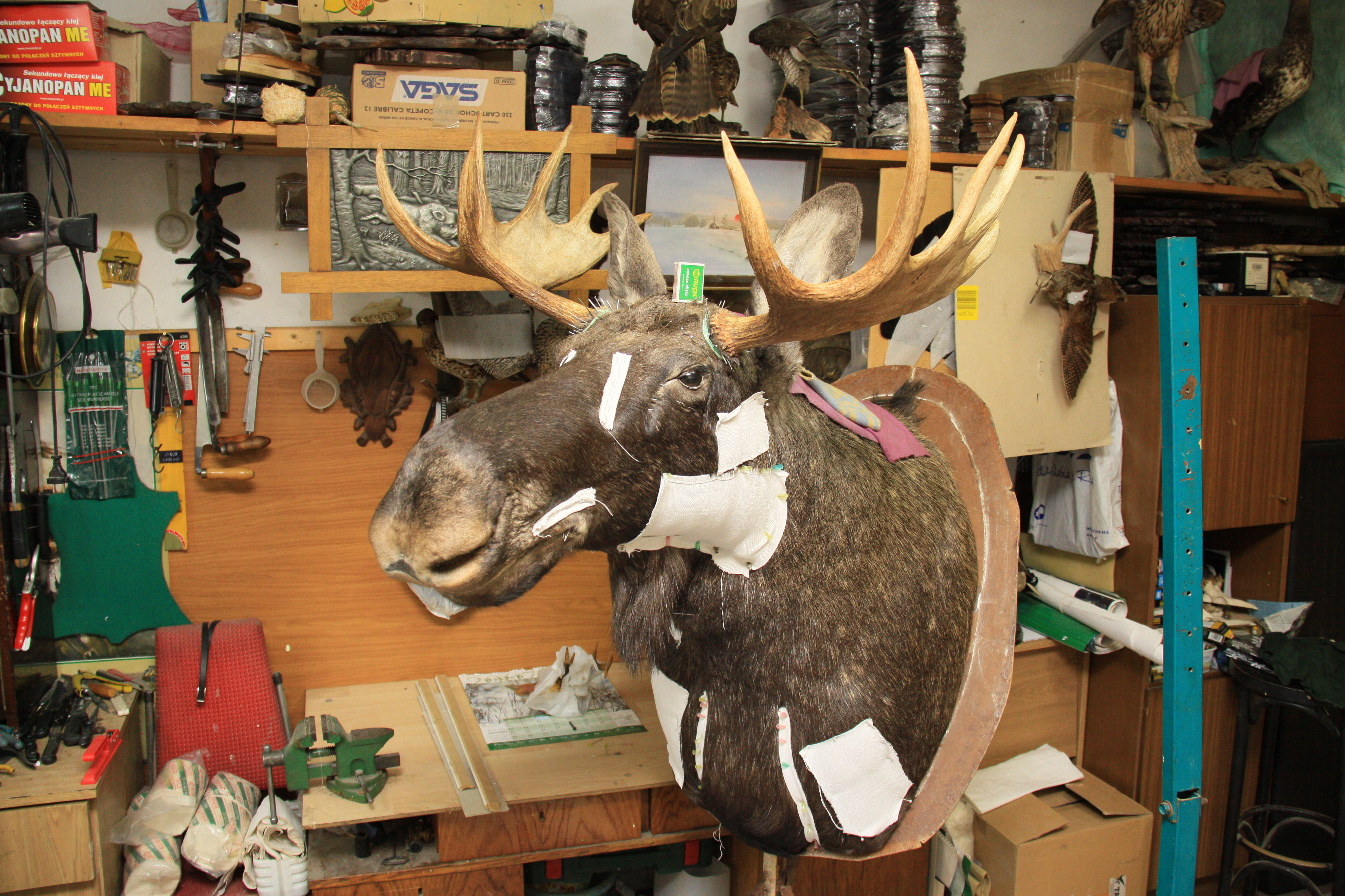 Moose